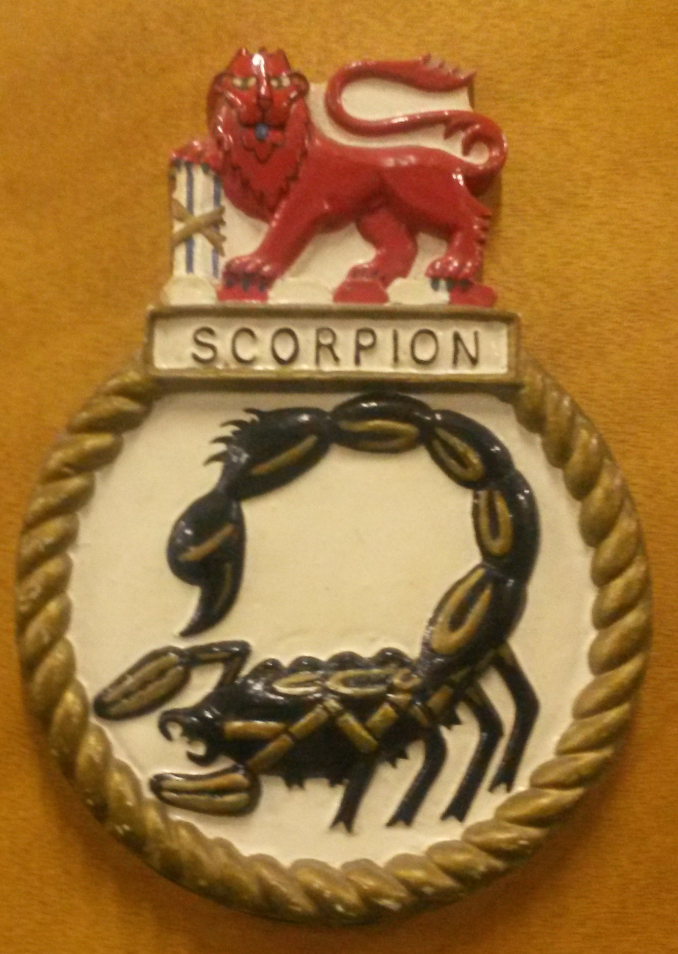 SAS Scorpion badge at the South African Naval Museum